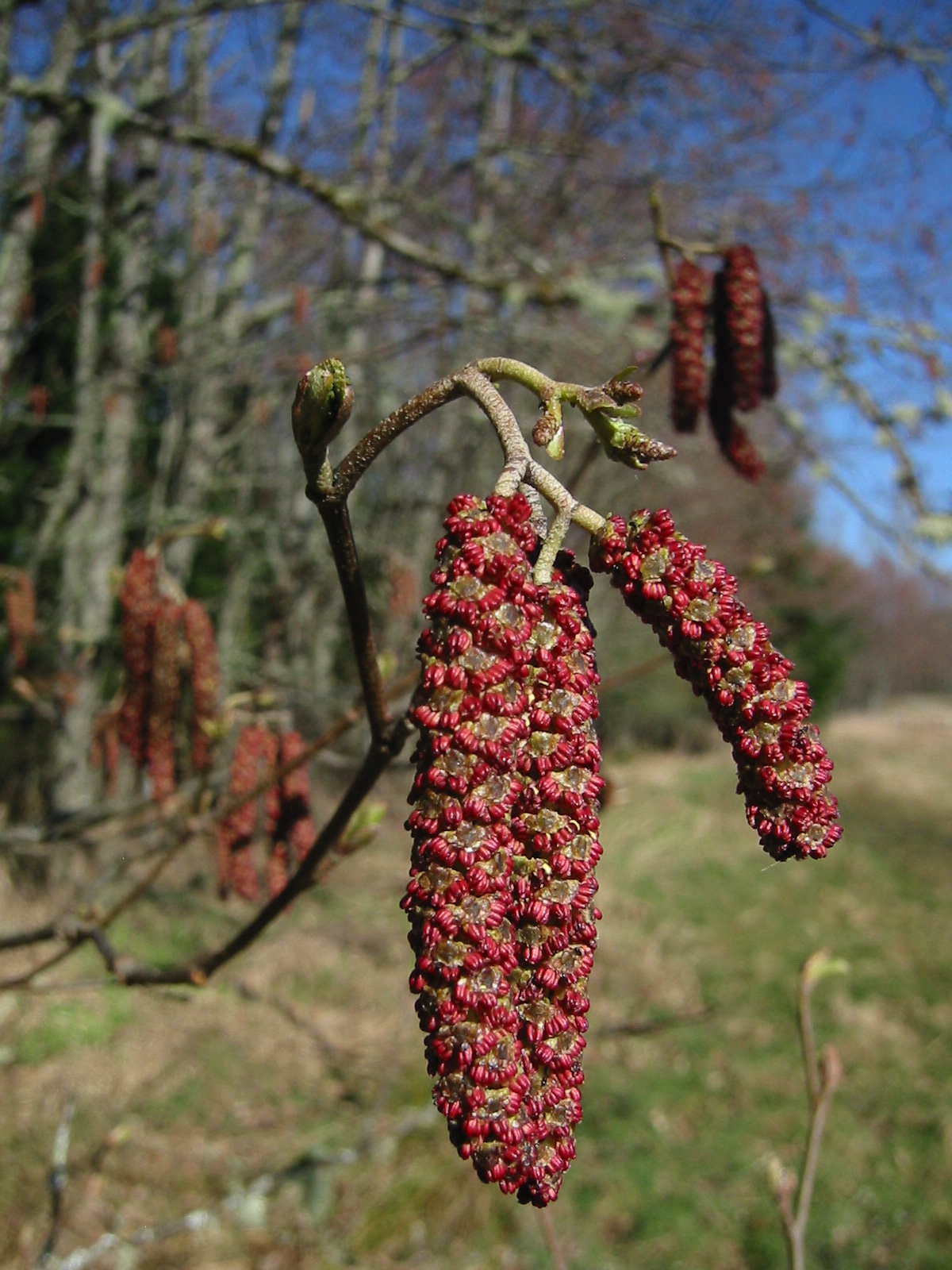 Red Alder male catkins with tiny female catkins above and a vegetative bud above left.